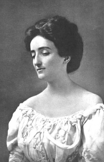 A white woman with dark hair in an updo; she is wearing a white dress with a low neckline that exposes her shoulders. She is looking downward.